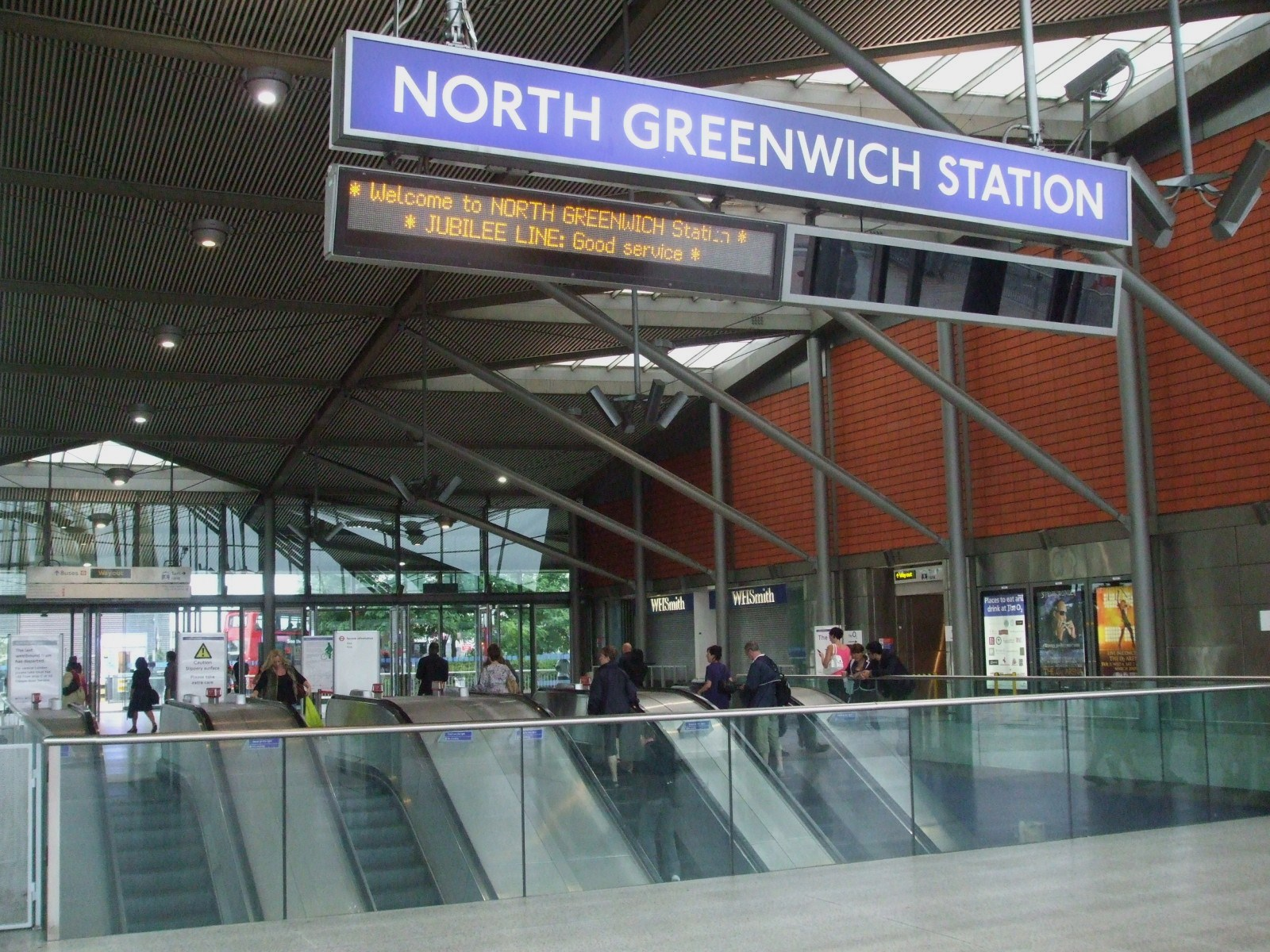 North Greenwich tube station entrance, eastern side